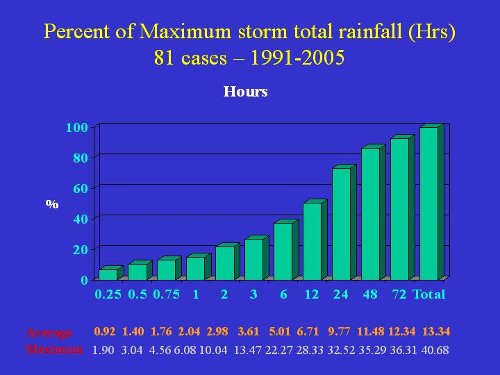 David Roth, Hydrometeorological Prediction Center, Camp Springs, MD, USA